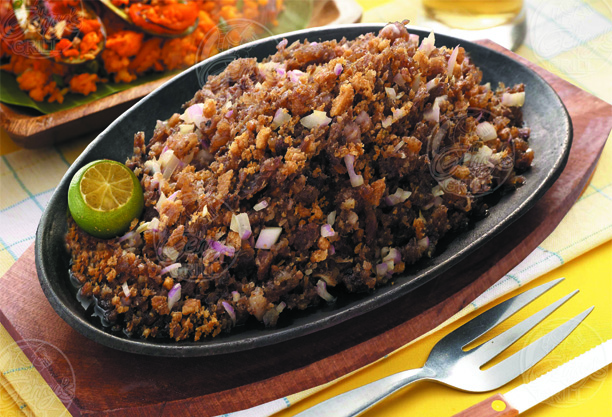 Gerry's Sisig